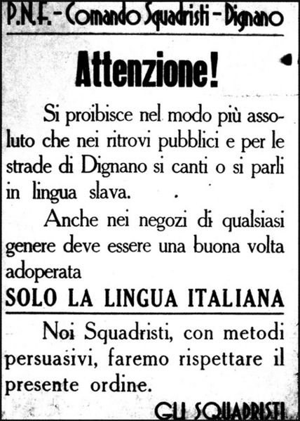 A leaflet from the period of Fascist Italianization of Slovene minority in Italy made by Italian Fascists. Text: "P.N.F.[2]-Comando Squadristi-Dignano. Attenzione! Si proibisce nel modo più assoluto che nei ritrovi pubblici e per le strade di Dignano si canti o si parli in lingua slava. Anche nei negozi di qualsiasi genere deve essere una buona volta adoperata solo la lingua italiana. Noi Squadristi, con metodi persuasivi, faremo rispettare il presente ordine. Gli Squadristi." Translation: "P.N.D.-Squadrist Command-Dignano. Attention! In the public spaces and on the streets of Dignano it is strictly forbidden to sing or speak in Slavic language. In stores of all kinds, too, only the Italian language must finally be used. We Squadrists will enforce this order with persuasive methods. The Squadrists."